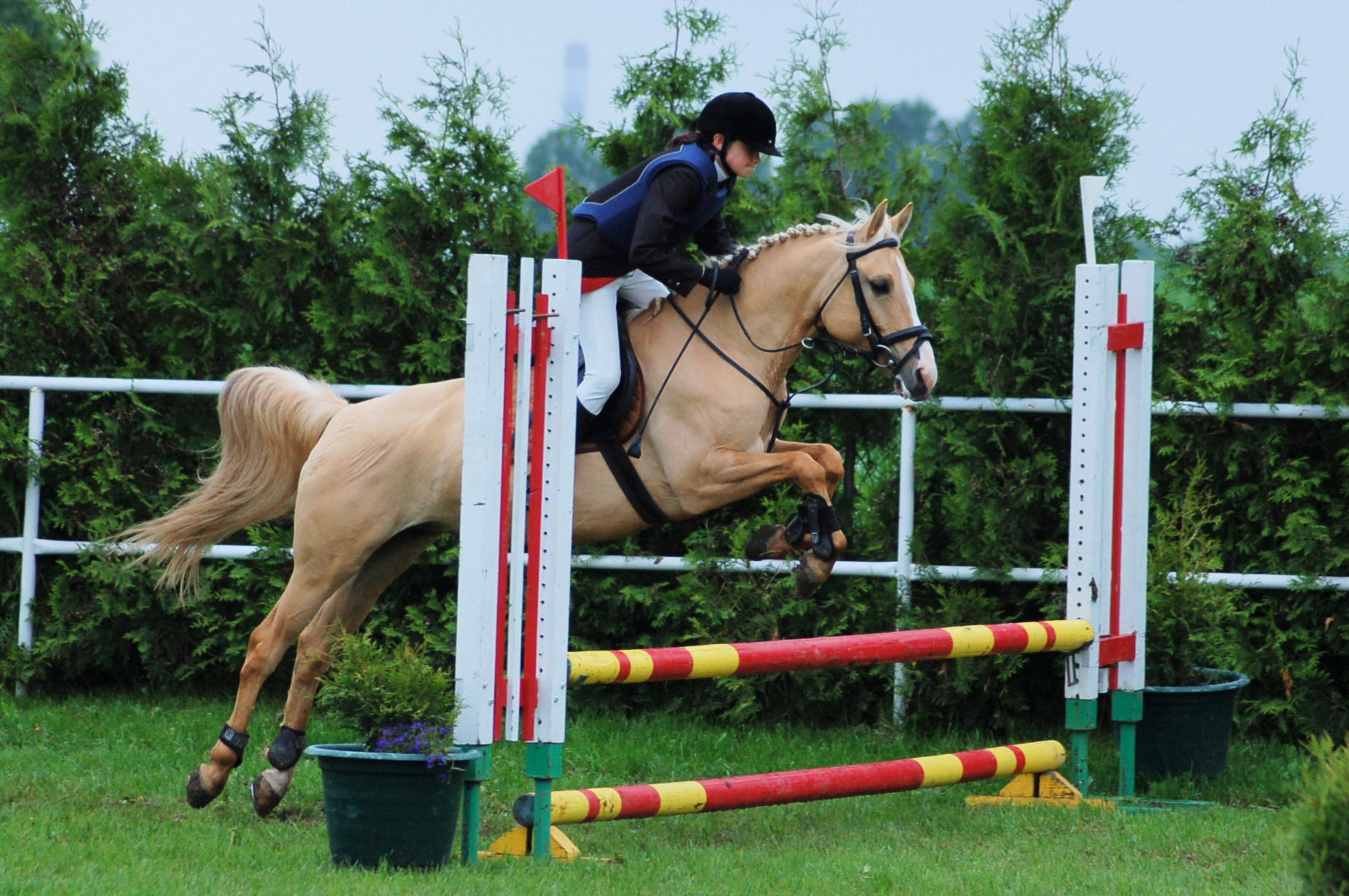 kuc felinski Karotka